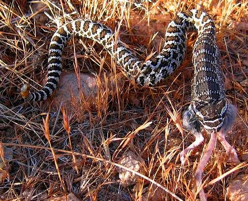 A Pacific rattlesnake (Crotalus oreganus) eating a small mammal in Joshua Tree National Park. Photo by NPS/Kristen Lalumiere